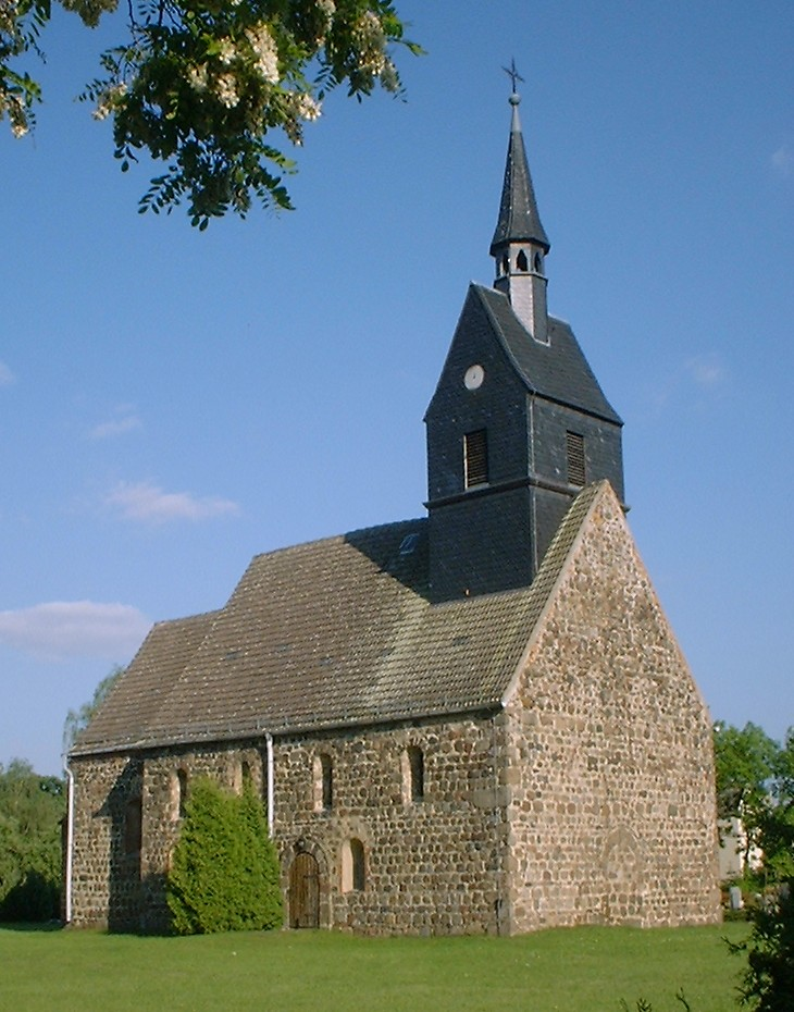 Church in Niemegk-Hohenwerbig in Brandenburg, Germany